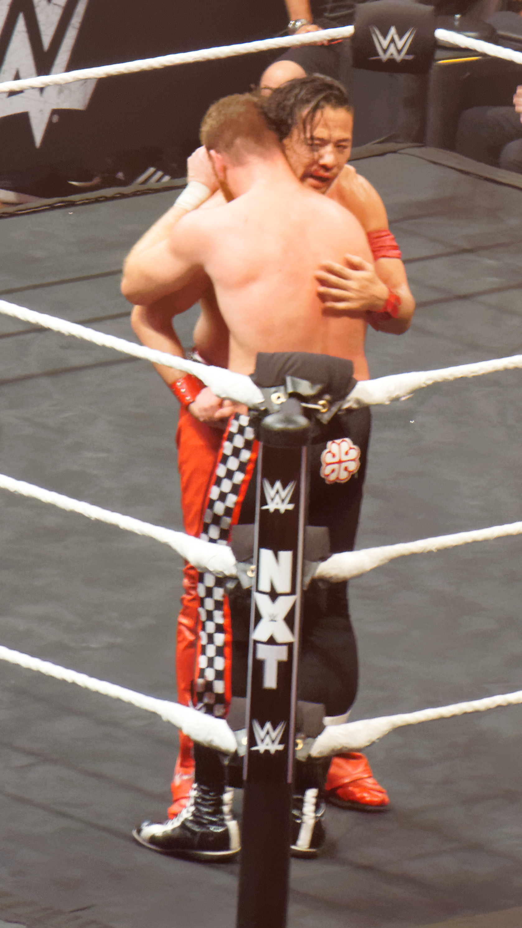 NXT TakeOver: Dallas was a major professional wrestling show in the NXT TakeOver series that took place on April 1, 2016, produced by WWE, showcasing its NXT developmental brand, and was streamed live on the WWE Network. It took place in the Kay Bailey Hutchison Convention Center in Dallas, Texas, during the weekend of WrestleMania 32. It was the first show in the NXT TakeOver series to be broadcast live on the WWE Network during WrestleMania weekend and first of 2016.[4] It was notable for Shinsuke Nakamura's WWE debut and first live match. The event received critical acclaim, with critics endorsing it as being better than WWE's WrestleMania 32 held two days later. The Zayn-Nakamura match was also lauded for being better than any match from WrestleMania 32. Shinsuke Nakamura def. (pin) Sami Zayn